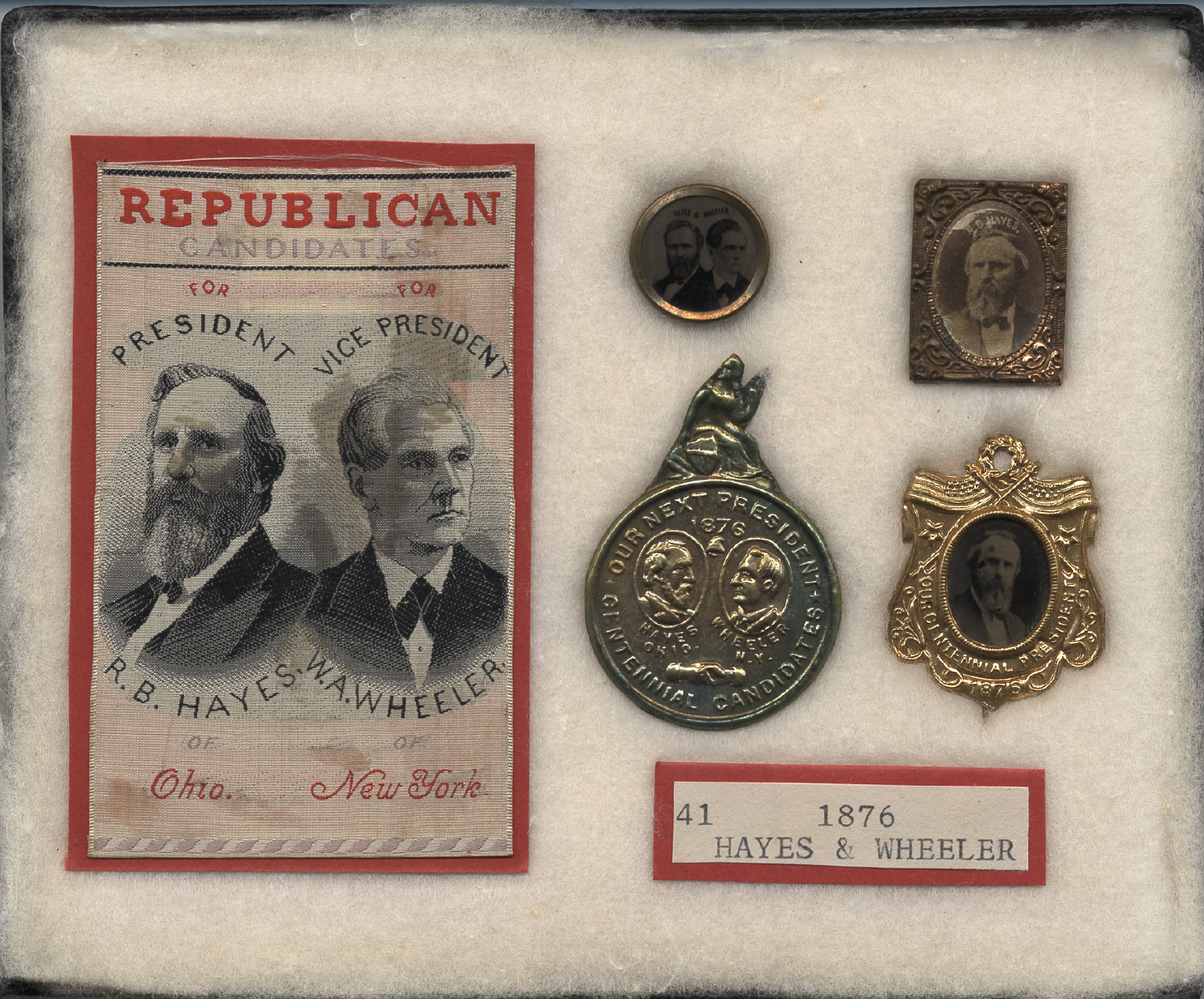 Collection: Cornell University Collection of Political Americana, Cornell University Library Repository: Susan H. Douglas Political Americana Collection, #2214 Rare & Manuscript Collections, Cornell University Library, Cornell University Title: Hayes-Wheeler Campaign Items, ca. 1876 Political Party: Republican Election Year: 1876 Date Made: ca. 1876 Measurement: Mount: 5 1/8 x 6 1/8 in.; 13.0175 x 15.5575 cm Classification: Metalwork Persistent URI: There are no known U.S. copyright restrictions on this image. The digital file is owned by the Cornell University Library which is making it freely available with the request that, when possible, the Library be credited as its source.